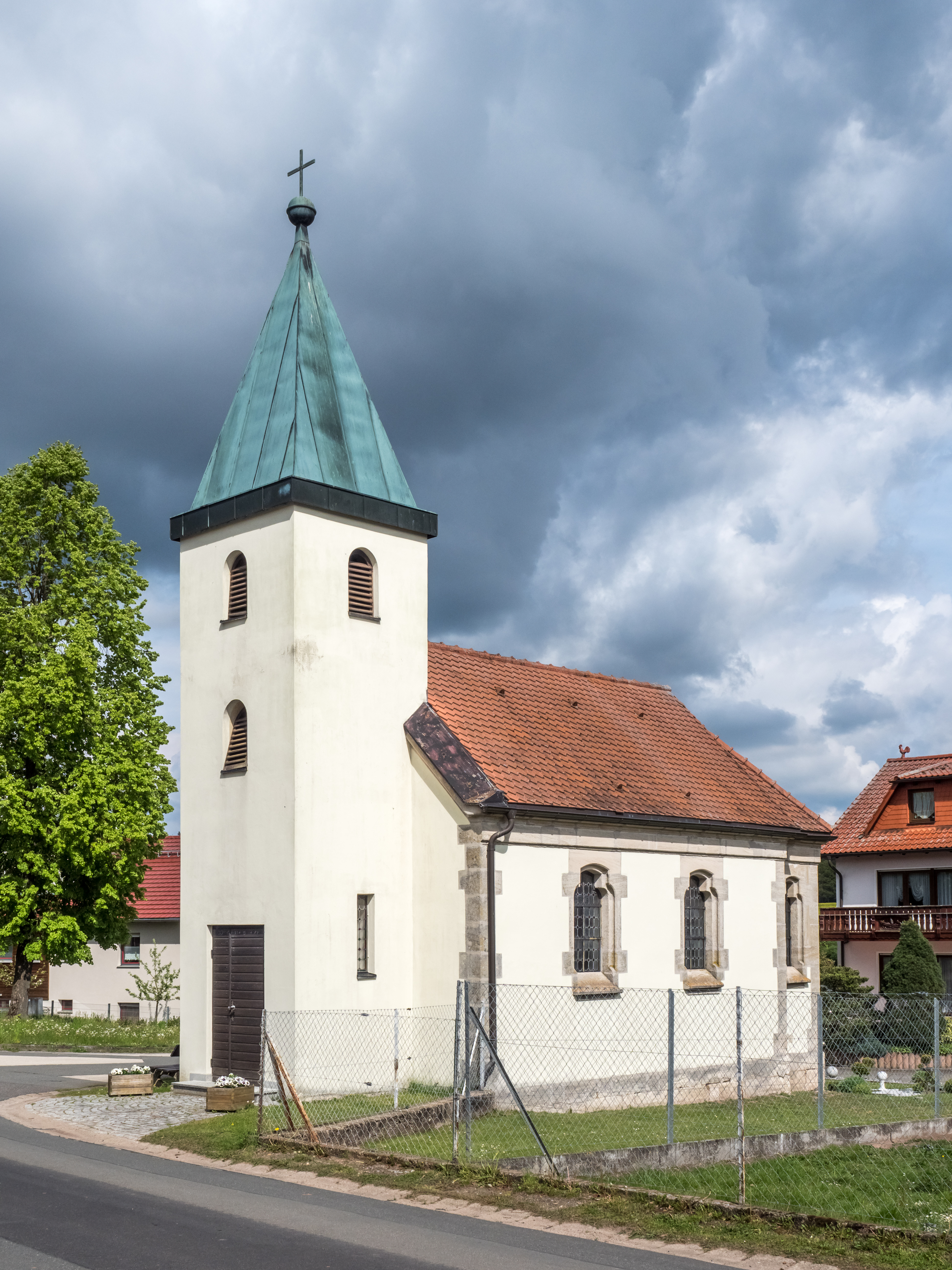 Chapel of the Virgin Mary in Bösenbechofen